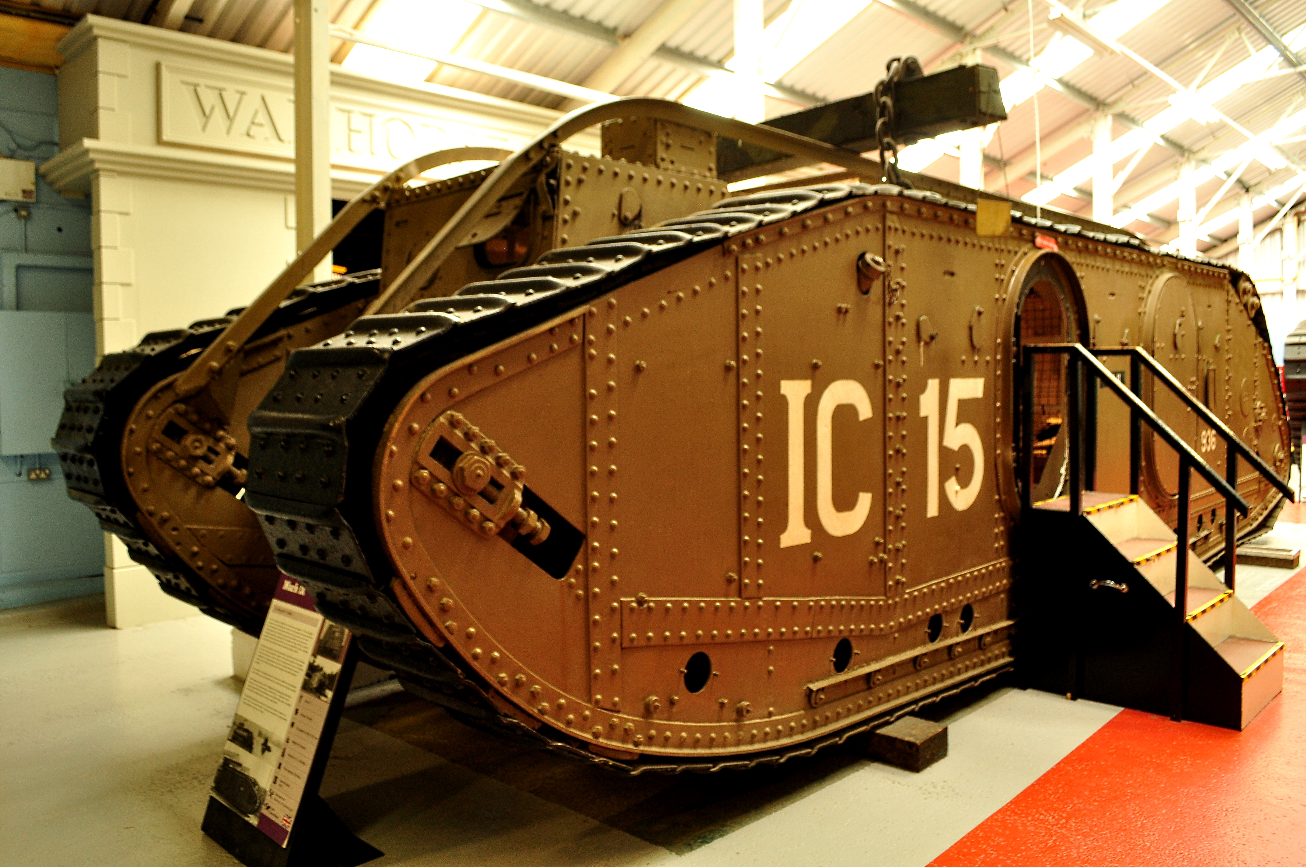 Mark IX tank at the Tank Museum, Bovington. IC 15 side view with vistor steps.